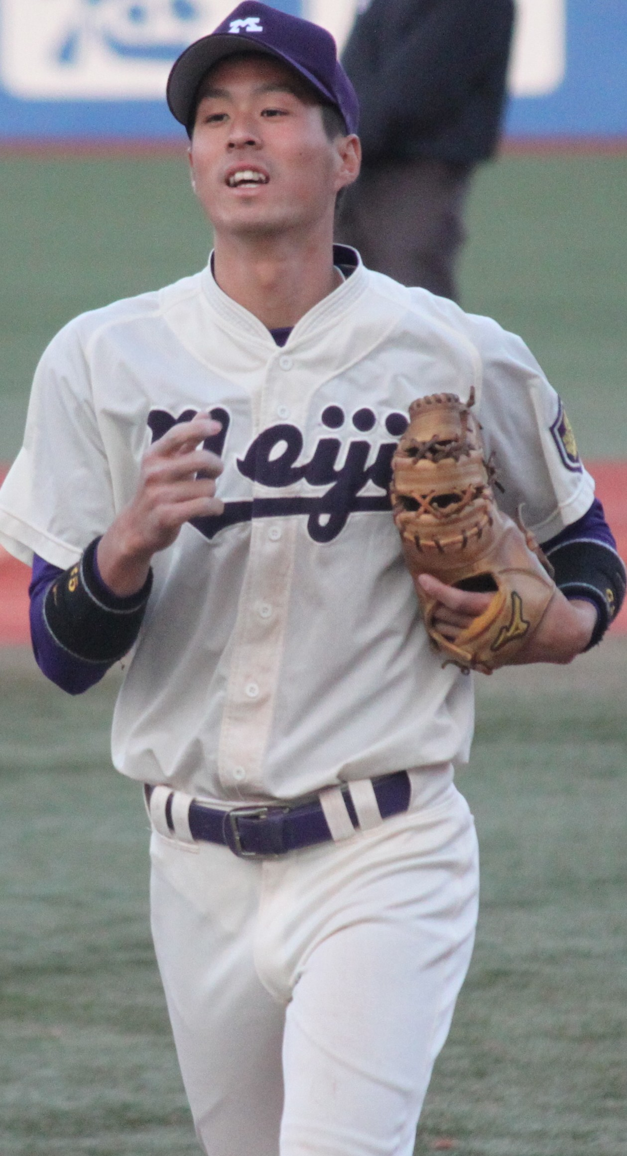 Hiromi Oka, infielder of the Meiji University Baseball Club, at Meiji Jingu Stadium.